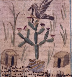 Close up of folio 26, Aubin Codex